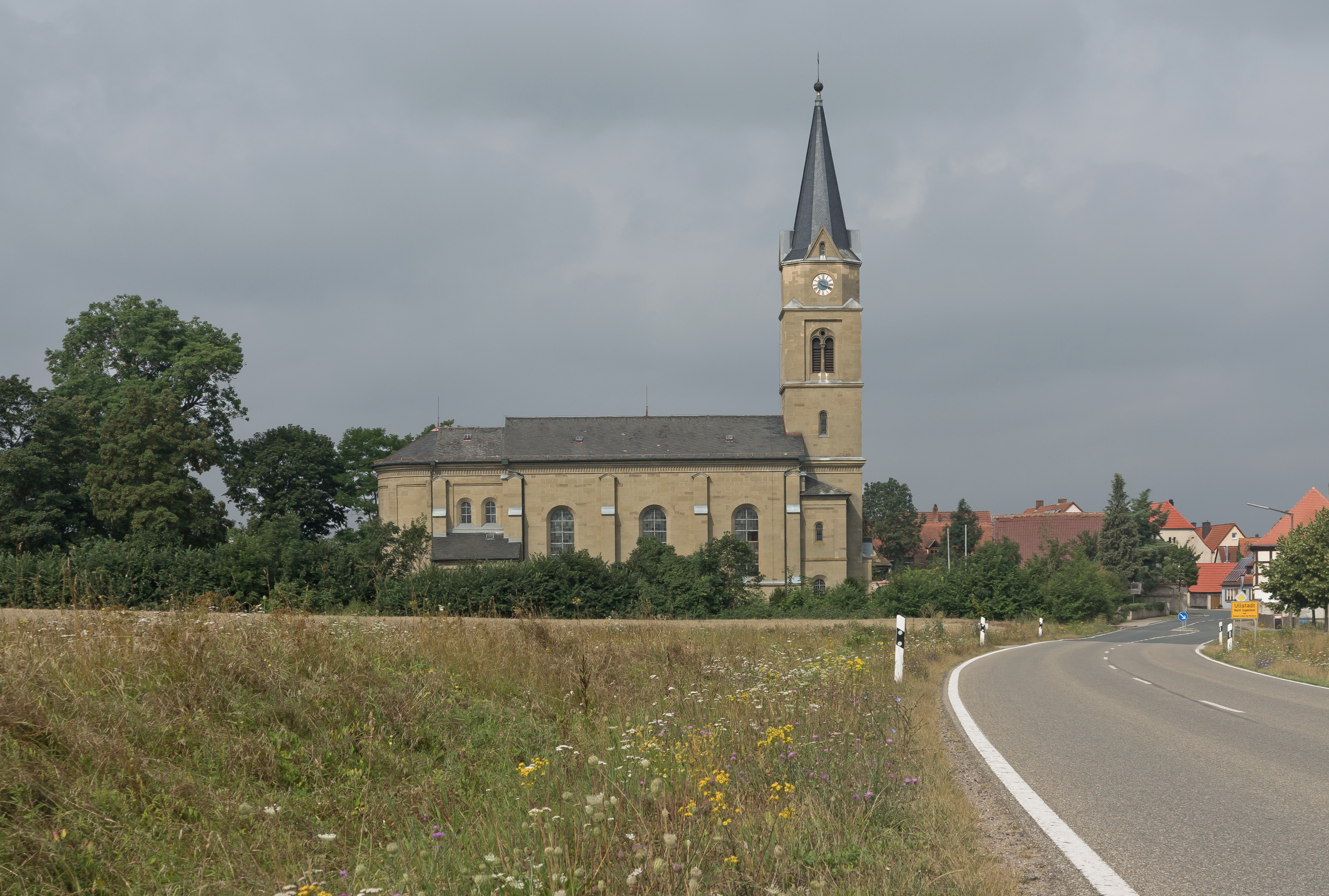 Ullstadt, church: katholische Pfarrkirche Mariä HimmelfahrtThis is a photograph of an architectural monument.